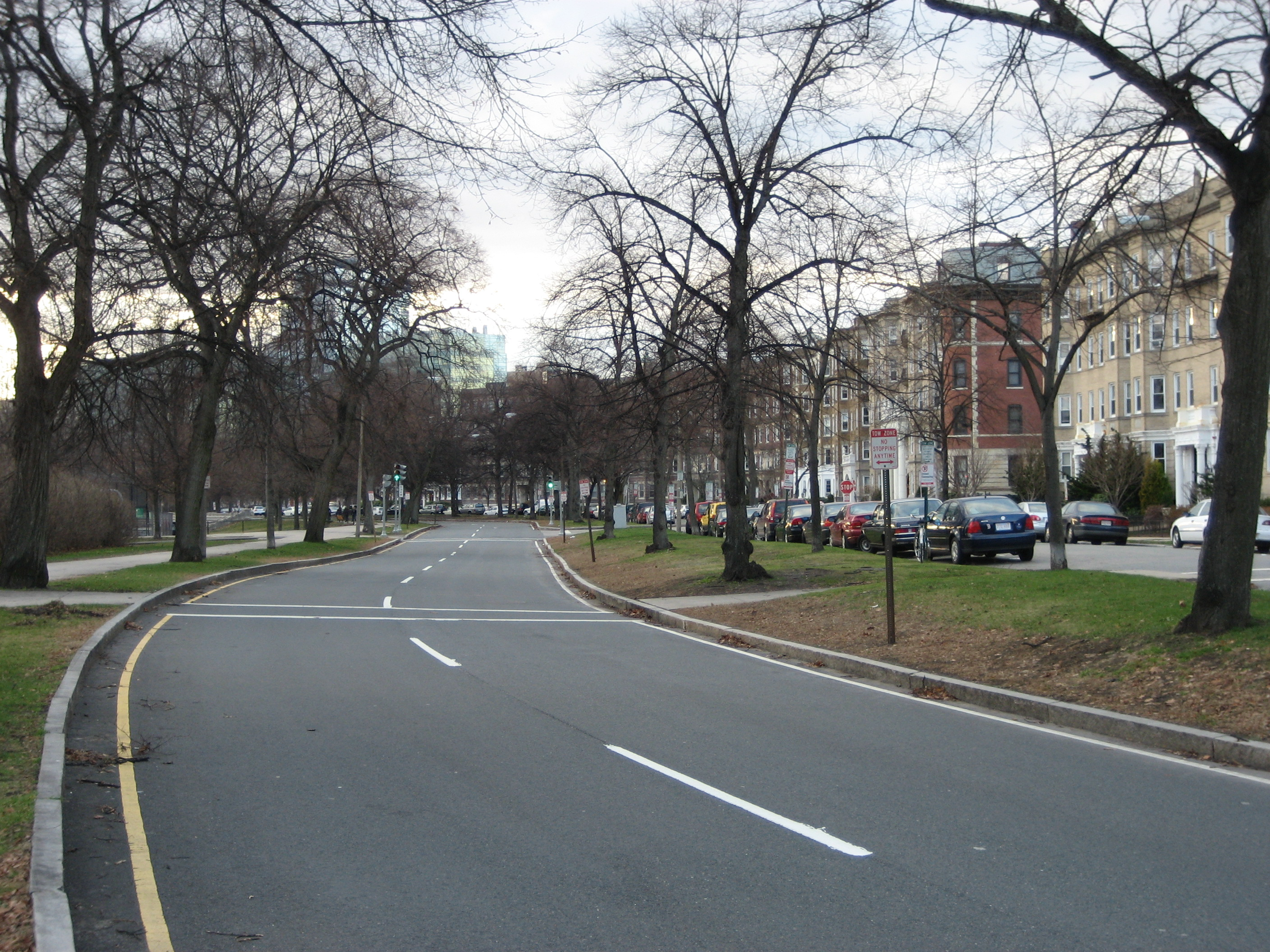 Park Drive in Boston showing the separate travel and parking lanes.